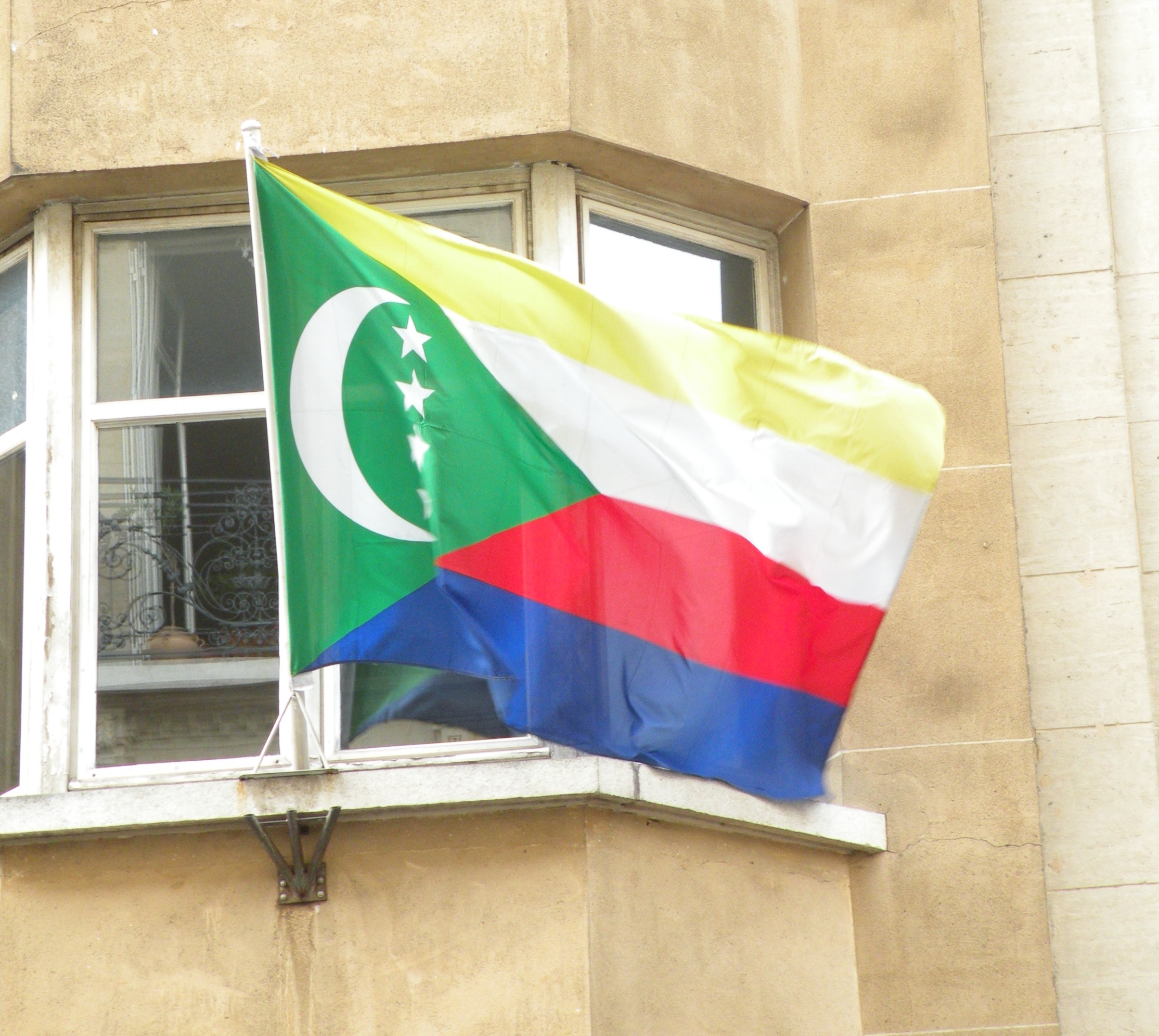 Flag of the Comoros on the embassy in Paris.